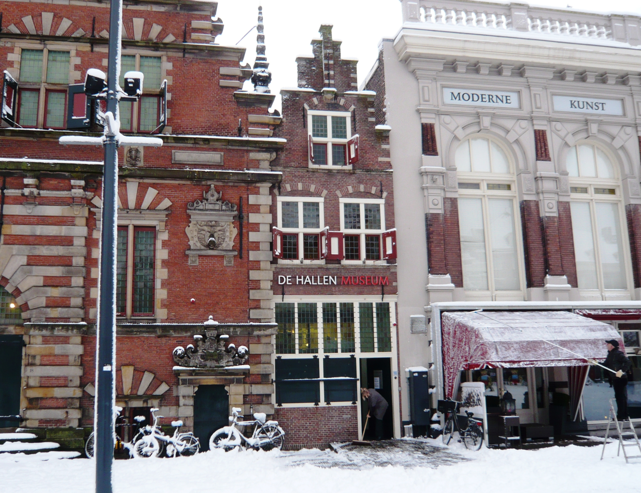 Entrance of Museum De Hallen, museum of modern art associated with the Frans Hals Museum, Grote Markt, Haarlem, The Netherlands